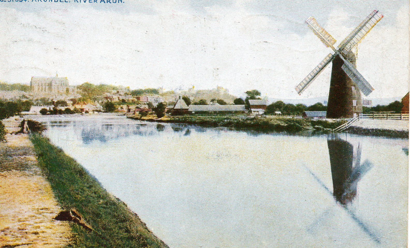 South Marsh Mill, Arundel. Postcard postally used 30-4-1920